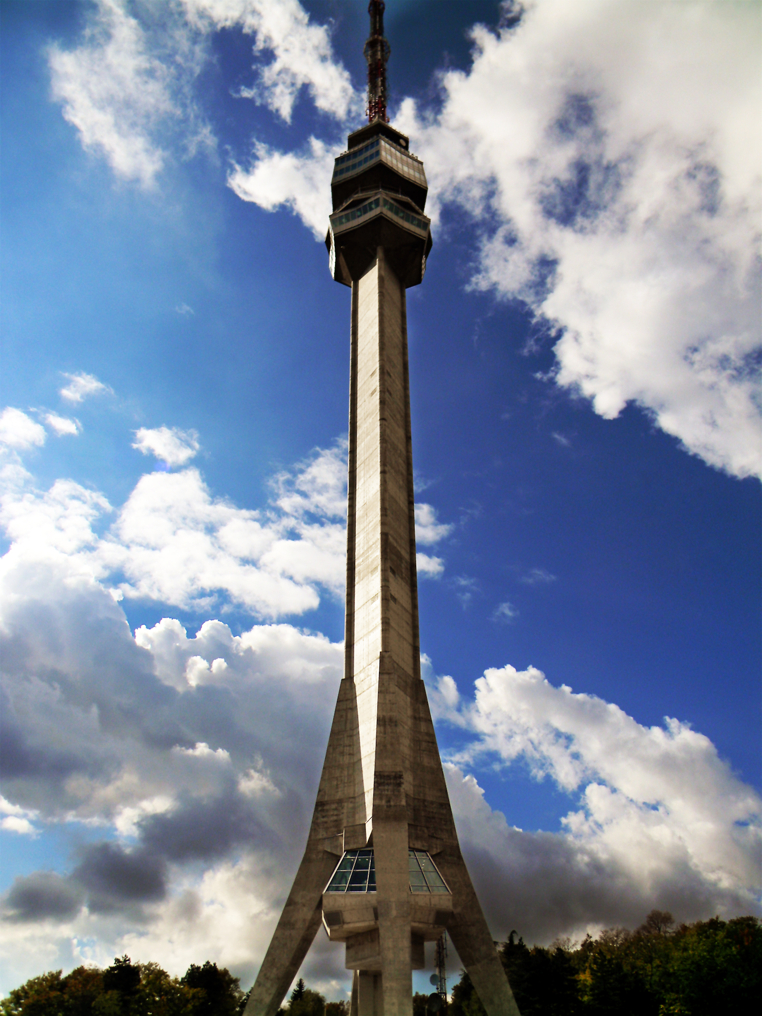 Avala Tower was destroyed on 29 April 1999 by NATO bombardment, supposedly to put Radio Television of Serbia off the air. Radio Television Serbia broadcasting did not suffer as it was relying on a network of local TV stations which were obliged to relay its program throughout the whole of Serbia. The tower was one of the last buildings to be destroyed before the end of the NATO operation. A special bomb was used to destroy the tower. The blast was one of the loudest explosions heard throughout Belgrade during the NATO bombardment. Between the date of its destruction and 11 September 2001, it was the tallest building ever destroyed, succeeding the Singer Building. As of 2001, it is the third tallest building ever destroyed (behind the two towers of the World Trade Centre in new York). In 2004, Radio Television Serbia commenced a series of fund-raising events in order to collect money to construct the building once again at the same place it was destroyed. In 2005, clearing of the site where the tower was destroyed began and on 21 December 2006 the construction of a new Avala Tower commenced. Initially, completion of the new tower was expected in August 2008, but construction works were severely delayed. The opening date was pushed back to 29 April, the tenth anniversary of its destruction. Radio Television Serbia reported on 23 October 2009 that the tower has been completed. Source: Avala Tower on Wikipedia